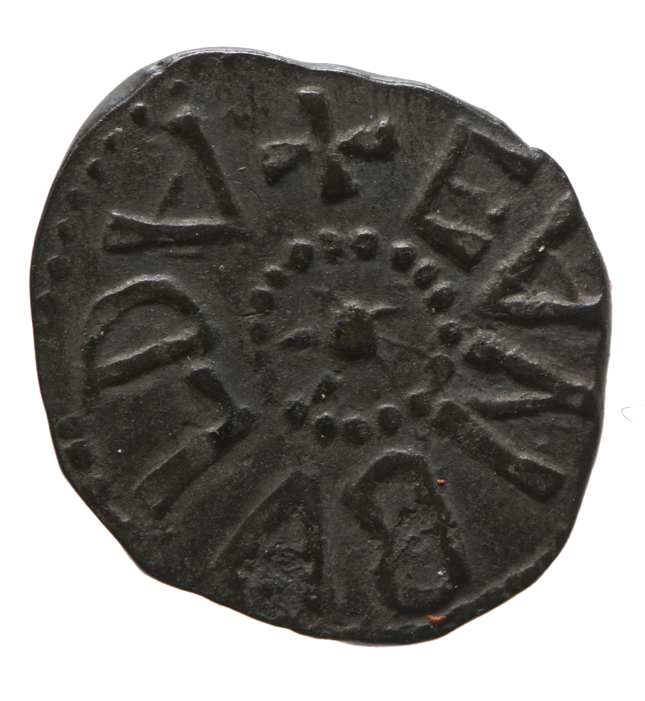 Obverse (front) of a copper styca of w: Eanbald_(floruit_798), Legend with large pellet surrounded by small pellets